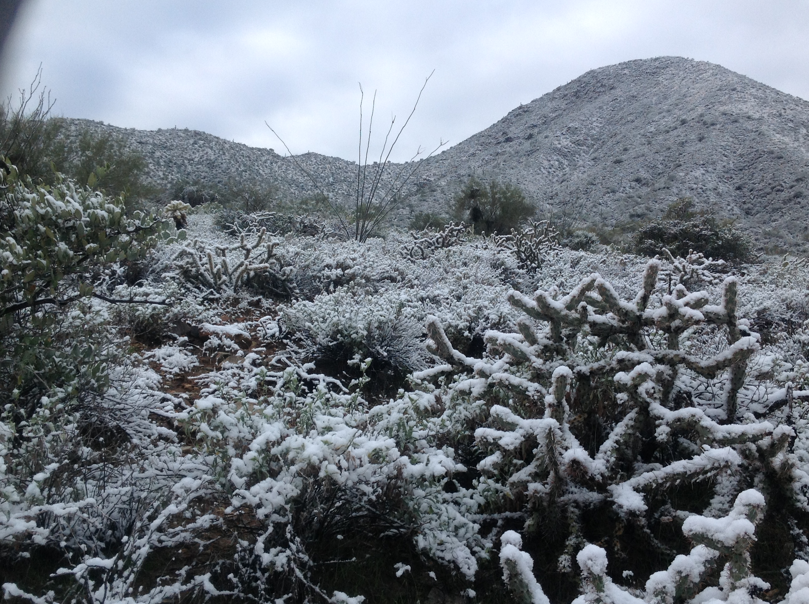 northwestern Fountain Hills after a snowstorm in 2015